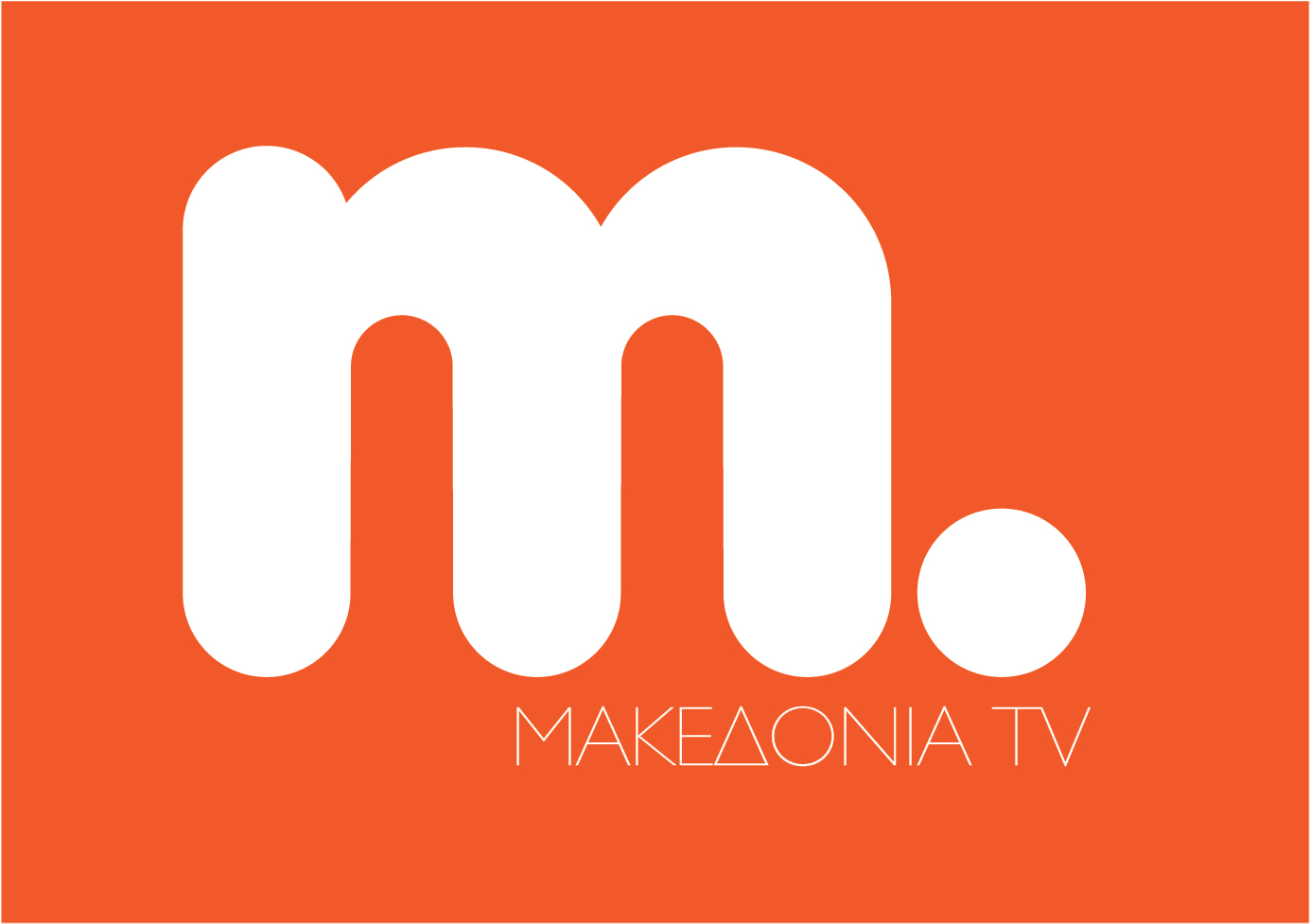 New logo for Makedonia TV